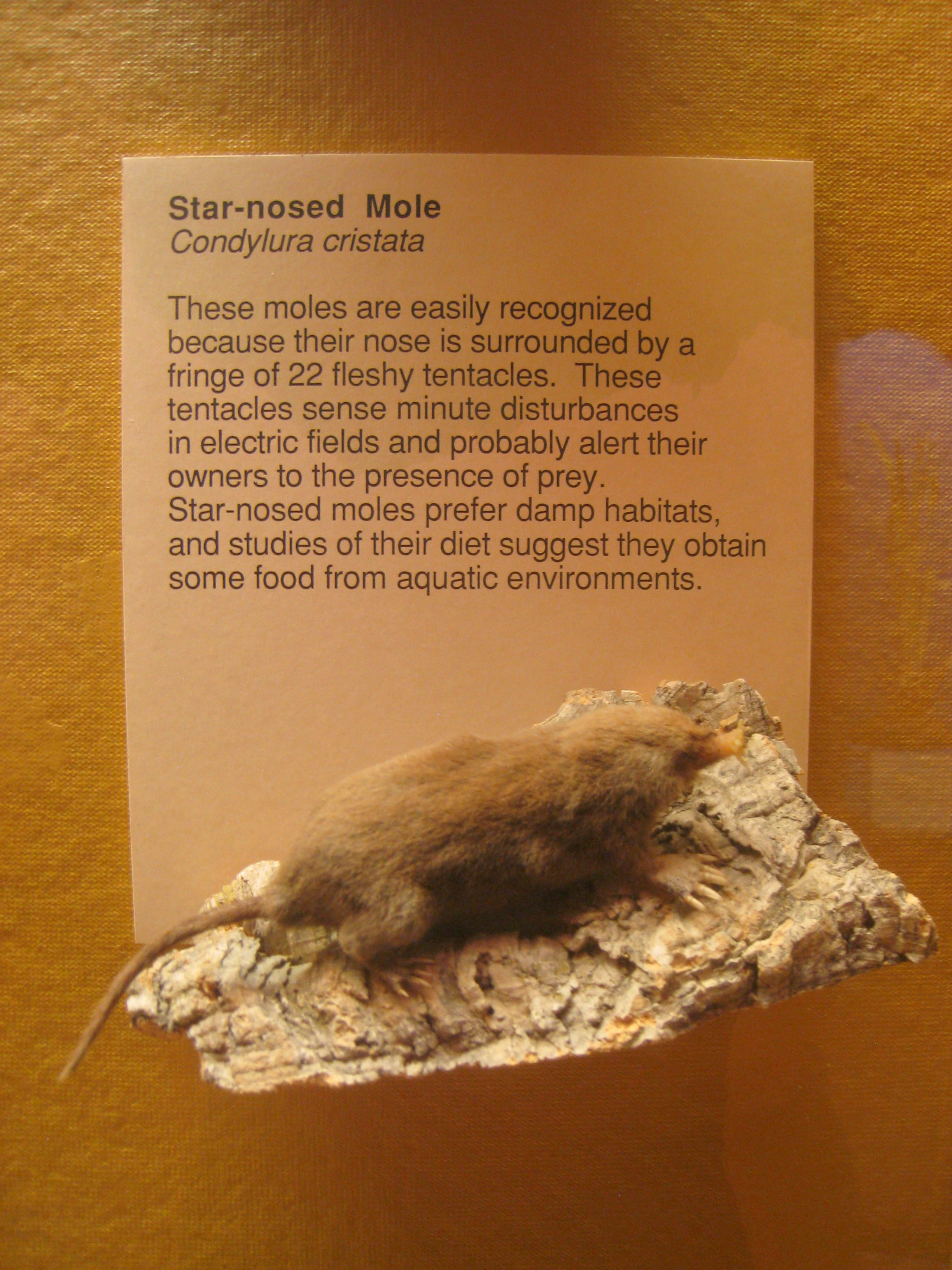 Condylura cristata. Exhibit Museum of Natural History, University of Michigan, 1109 Geddes Avenue, Ann Arbor, Michigan, USA.